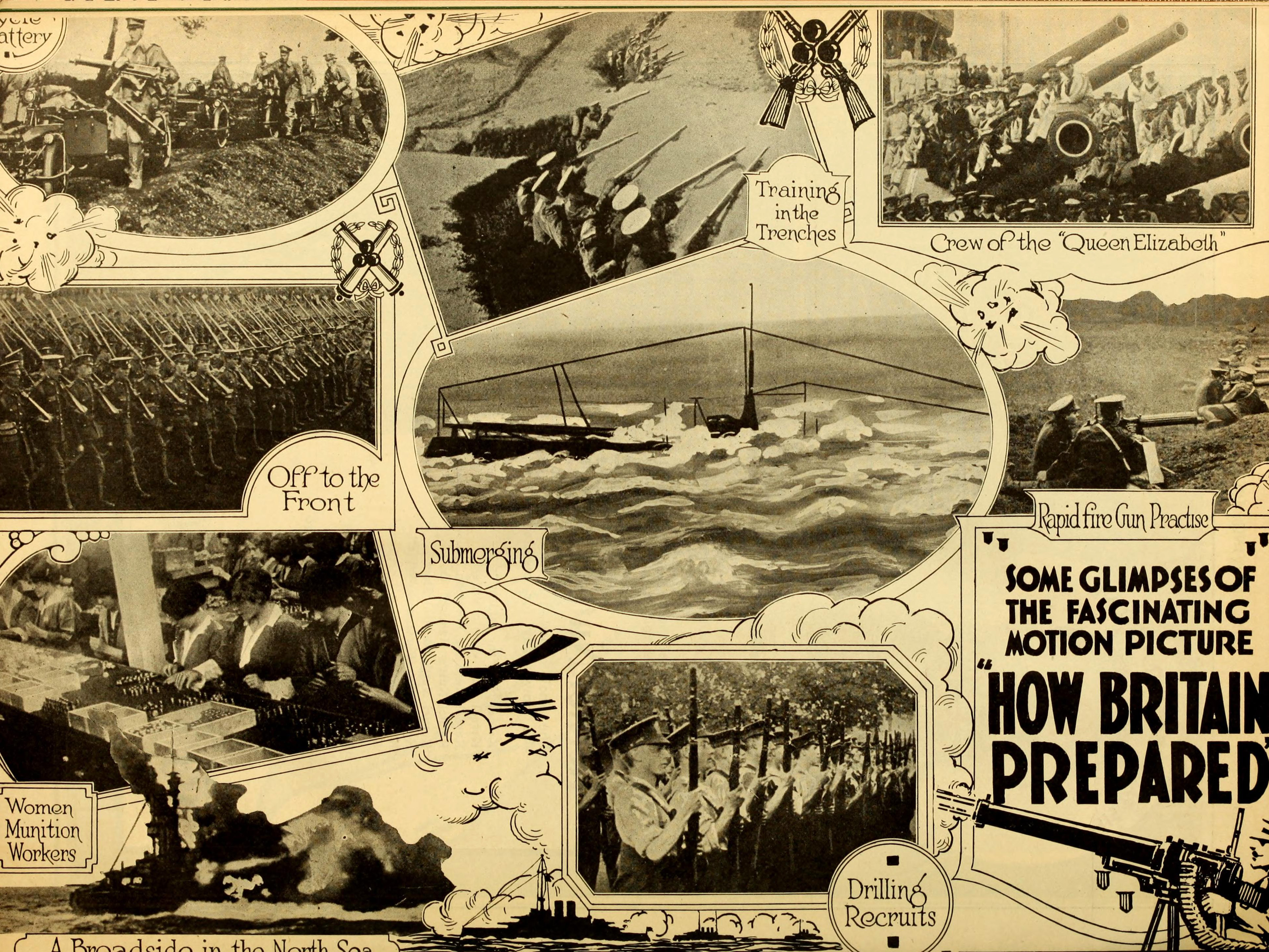 Advertisement in The Moving Picture World